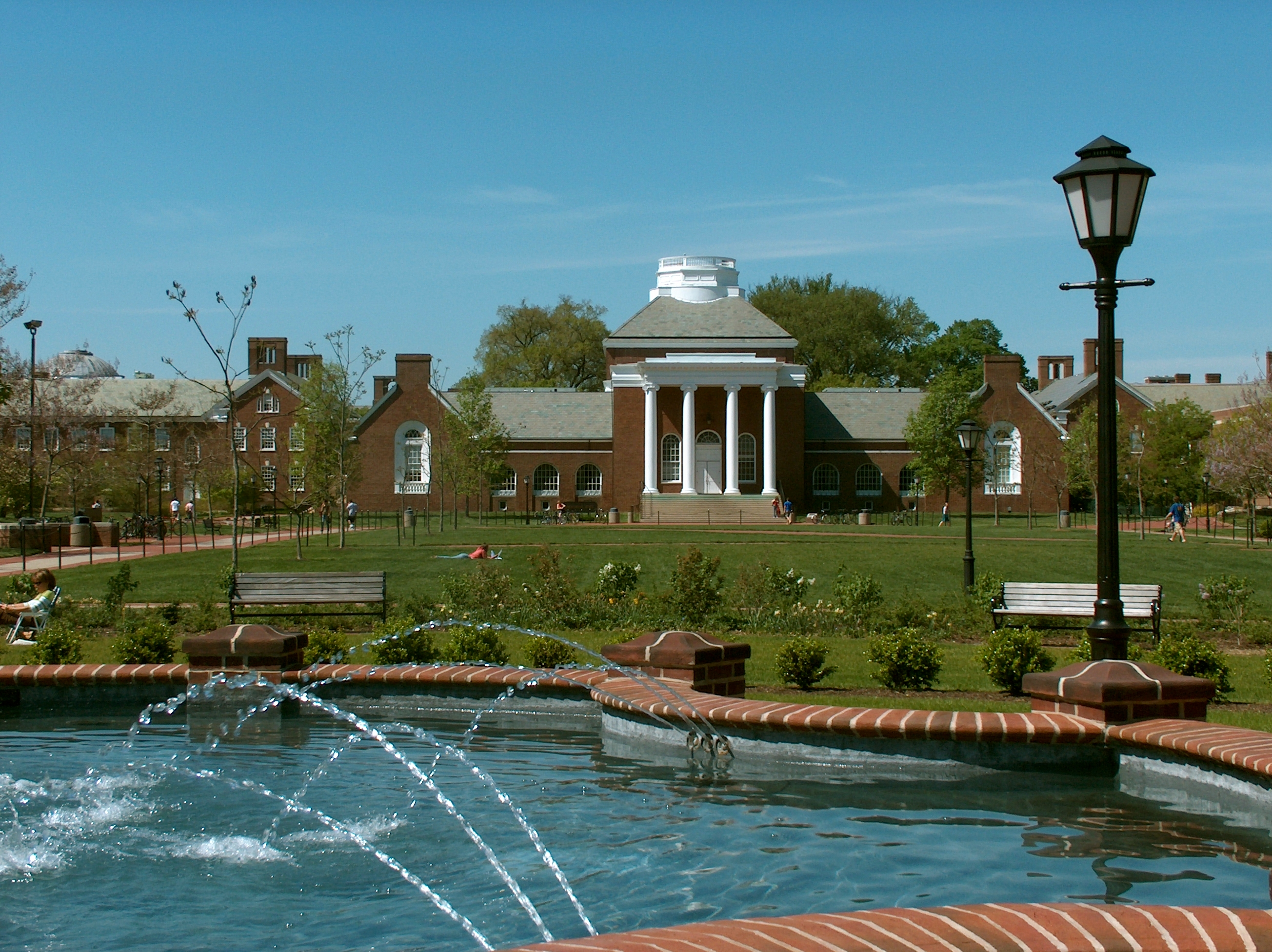 University of Delaware in Newark, Delaware located in the USA. Memorial Hall in the background, Magnolia Circle in the foreground.